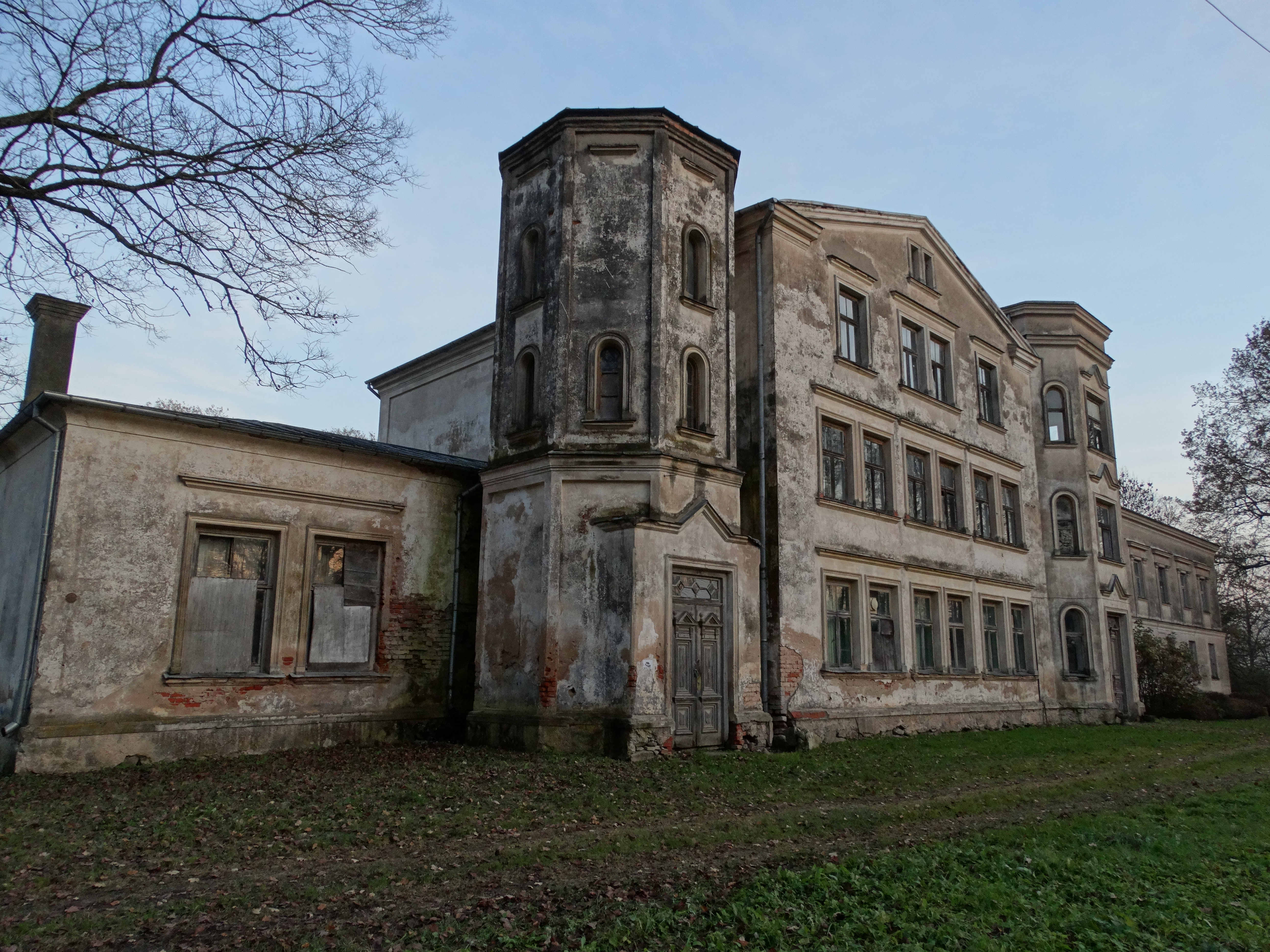 Gulbinėnai, Pasvalys district, Lithuania